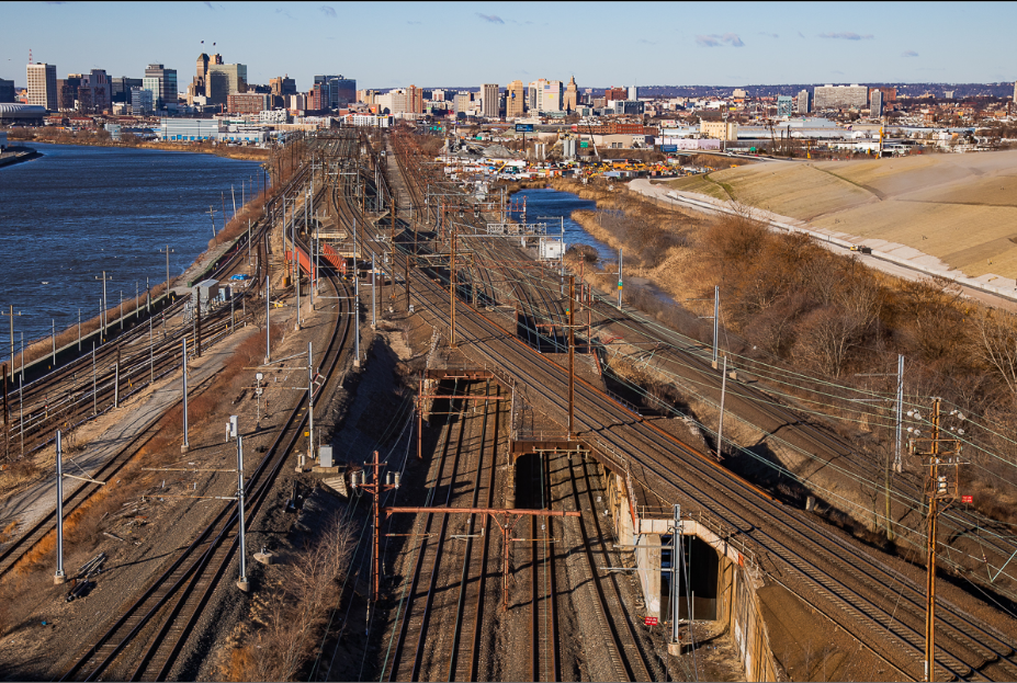 Sawtooth Bridges along the Northeast Corridor (NEC) at convergence of Amtrak, NJ Tansit, PATH and Conrail in Kearny Meadows NJ